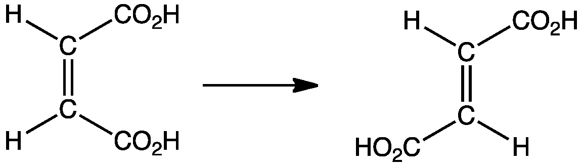 isomerization of maleic to fumaric acid